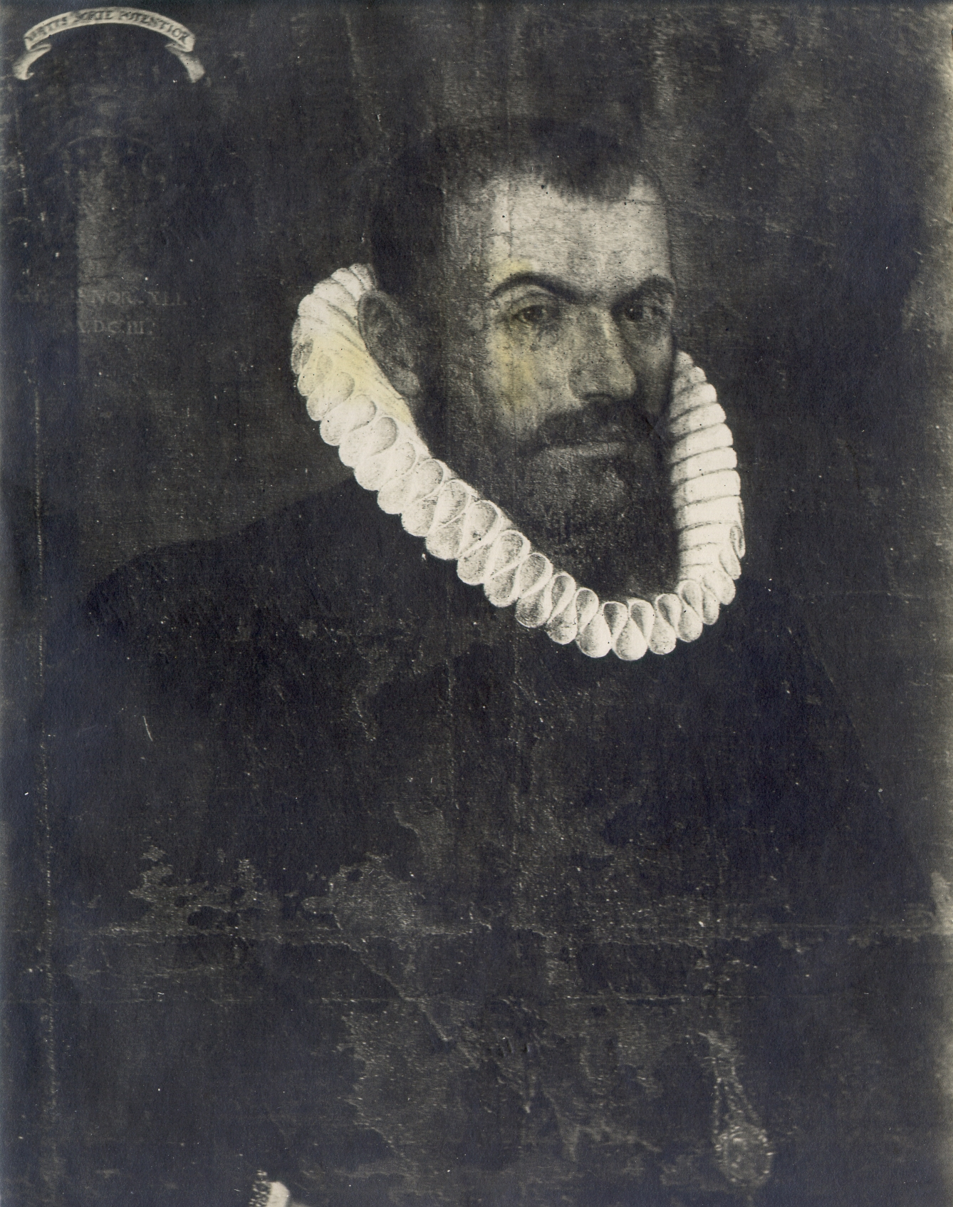 Andrej Hren (1562-1645)